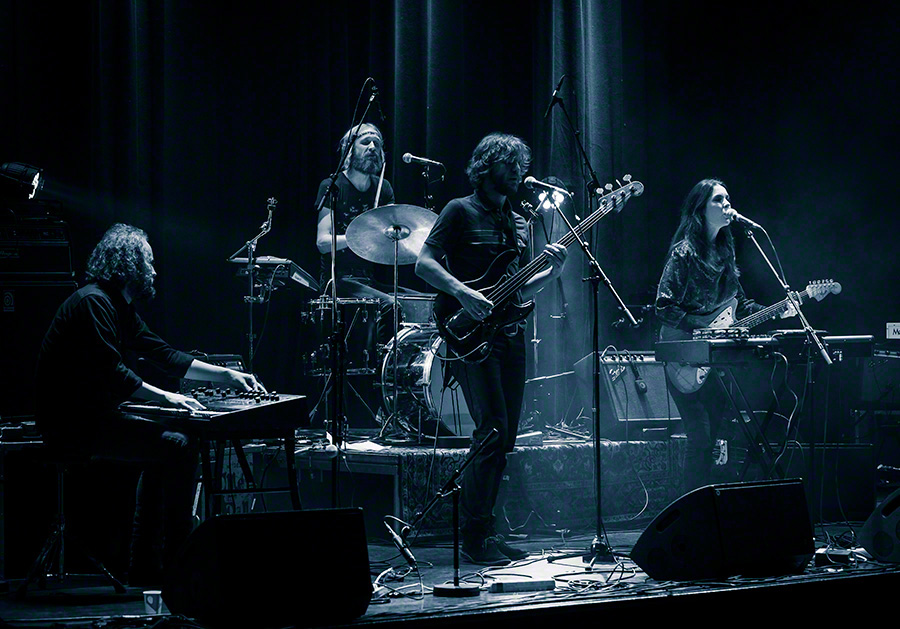 'Band of Gold' is performing at Cosmopolite in Oslo. The band consists of Nina Elisabeth Mortvedt and Nikolai Hængsle Eilertsen.